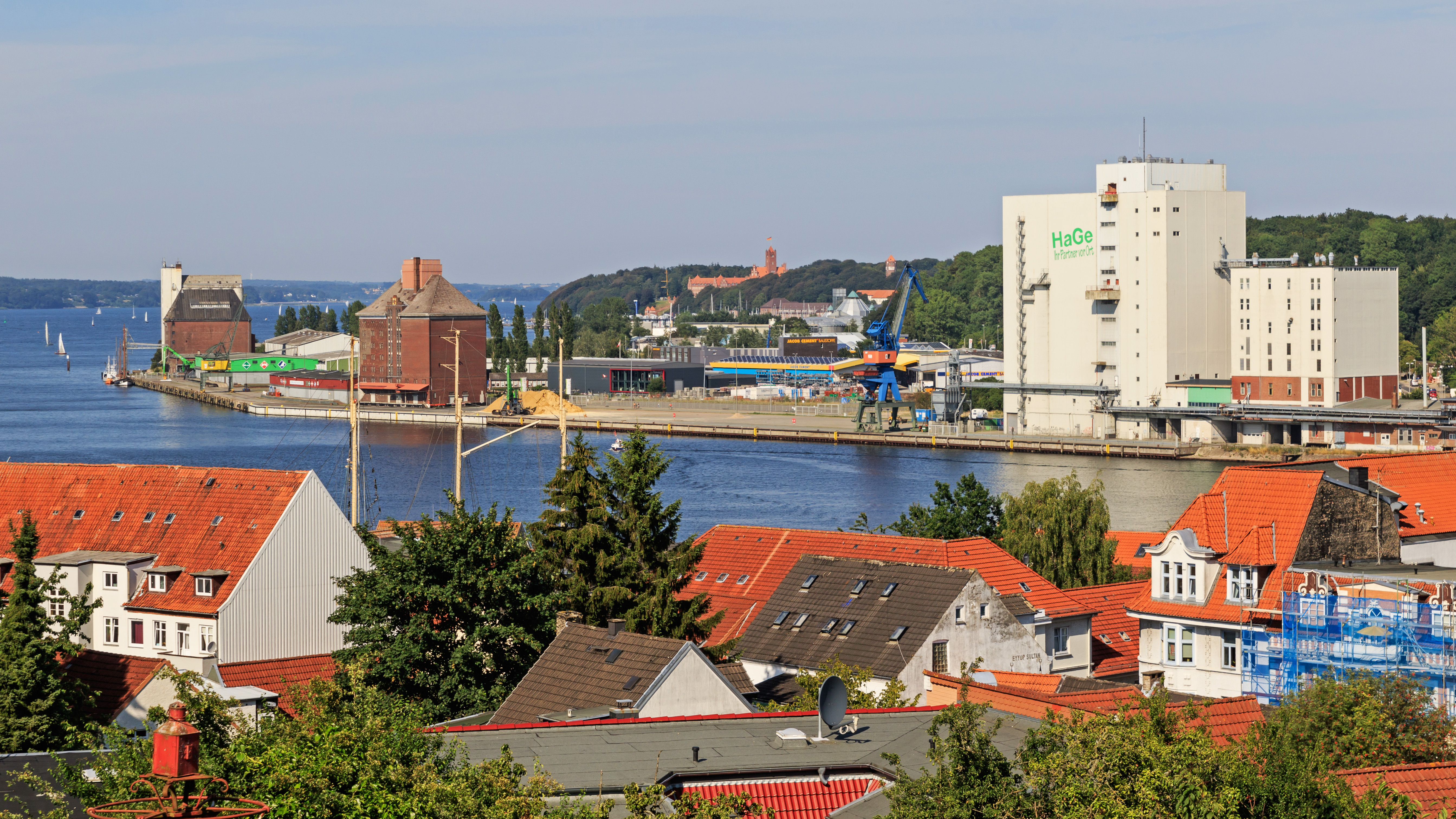 View from Rummelgang in Flensburg, Germany